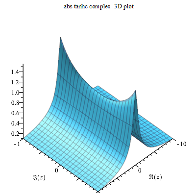 Tanhc abs complex 3D